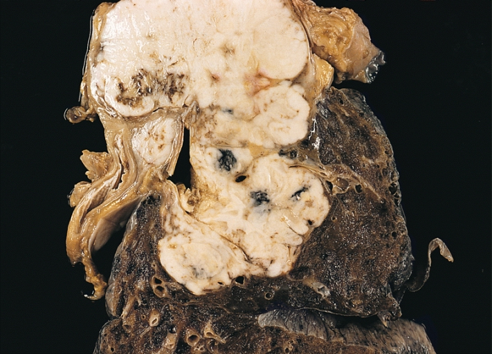 LOWER RESPIRATORY TRACT: LARGE CELL CARCINOMA This large cell carcinoma at autopsy shows a large multilobulated tumor adjacent to the hilum. A metastatically involved lymph node is present next to the bronchus.